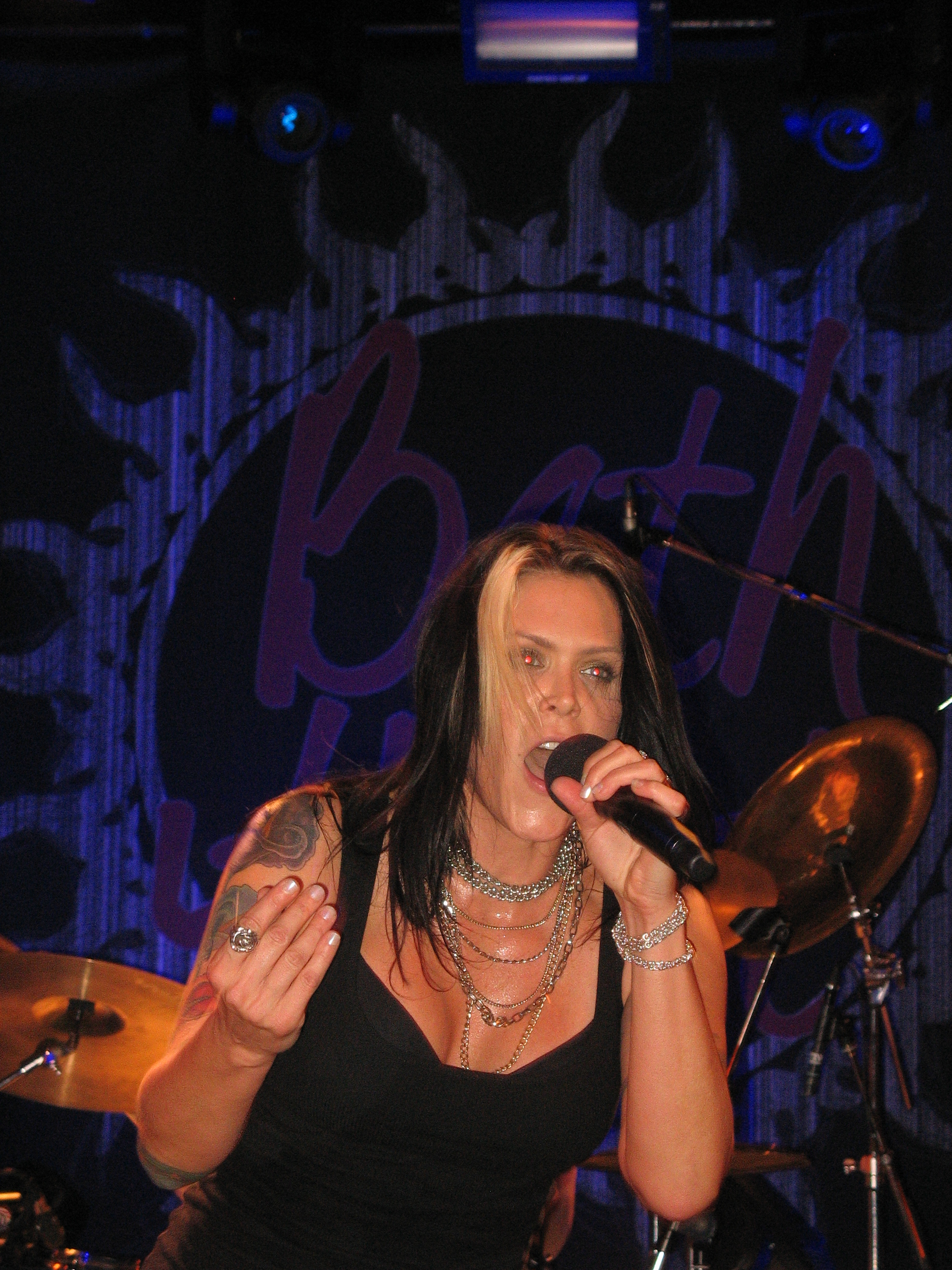 Beth Hart performing.